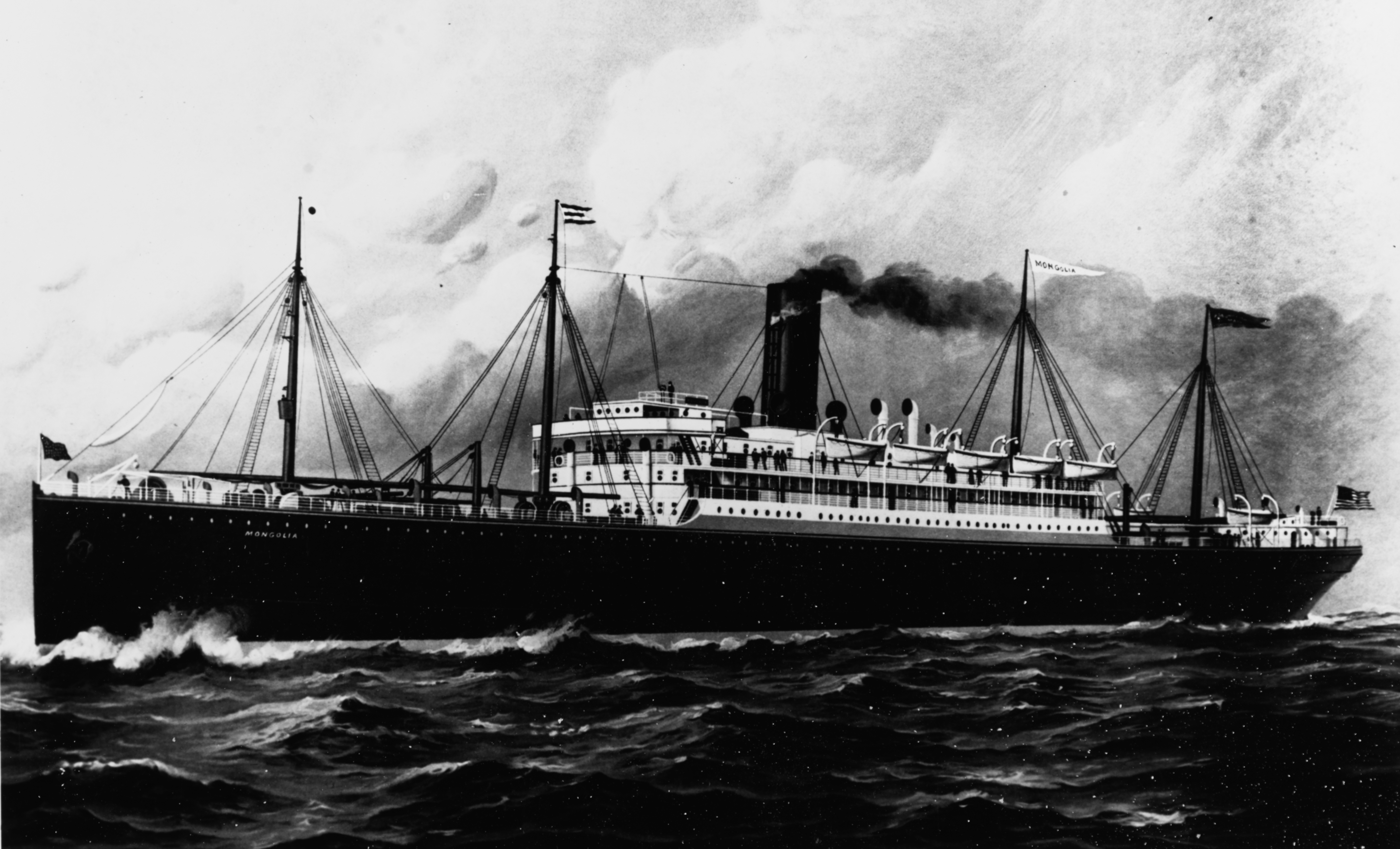 Artwork depicting the SS Mongolia, probably made prior to World War I. Mongolia was a Pacific Mail Steamship Co. passenger-cargo ship that was commissioned in 1904. Built for E.H. Harriman's trans-Pacific service, this ship later operated on both inter-coastal and trans-Atlantic routes. She served as USS Mongolia (ID # 1615) in 1918-1919. Renamed President Fillmore in 1929 and Panamanian in 1940, she was broken up at Shanghai, China, in 1946.